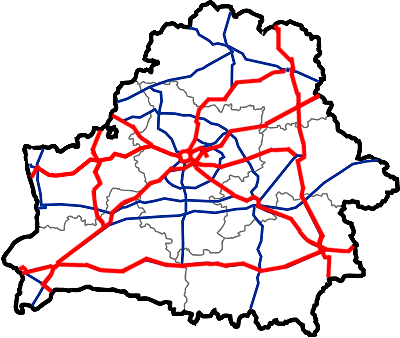 Map of main automobile roads in Belarus with highways M1-M12 highlighted using red colour.